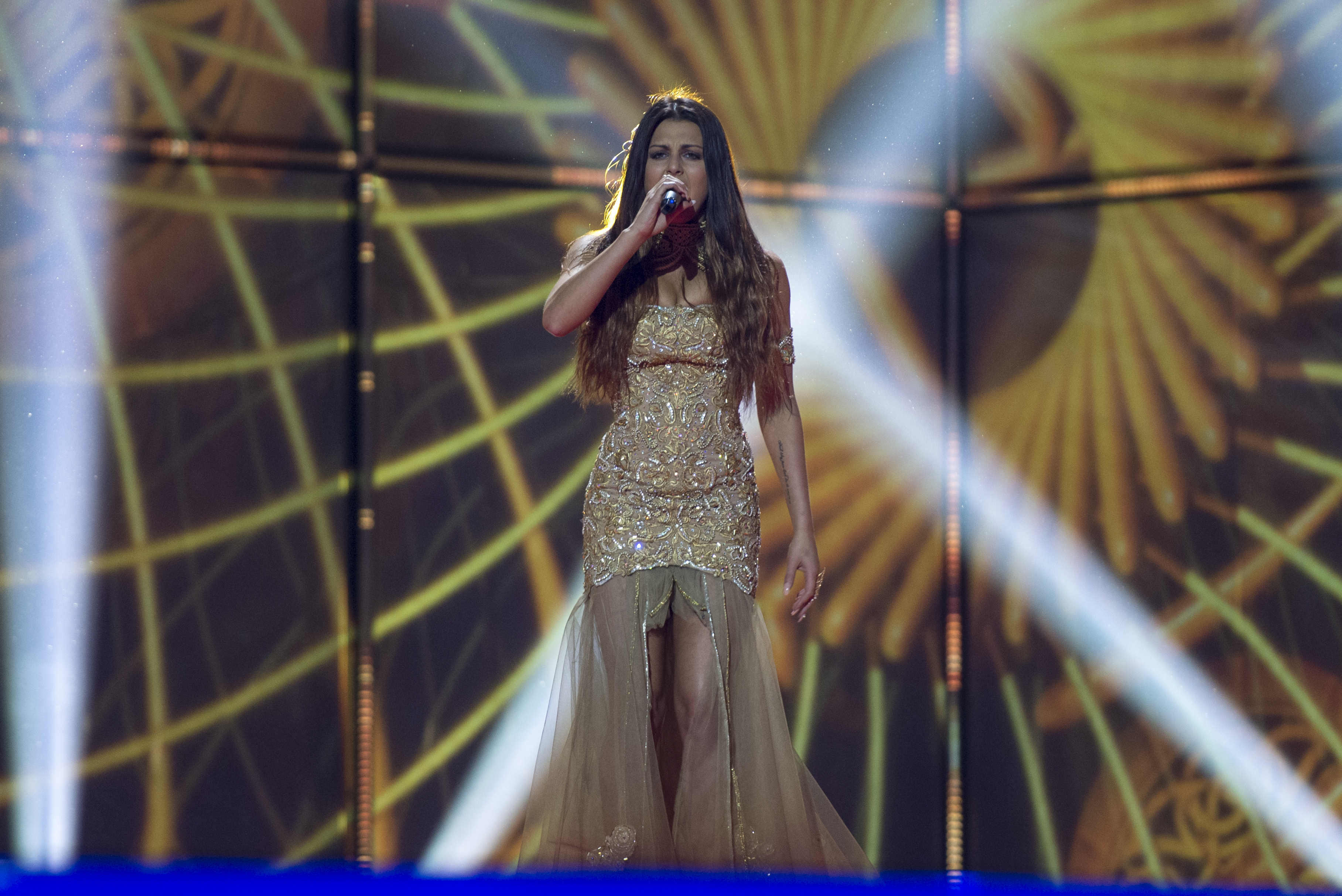 Can-linn and Kasey Smith representing Ireland with the song "Heartbeat" during the first dress rehearsal of the second semi final of the Eurovision Song Contest 2014 Copenhagen. (Help translate this text)